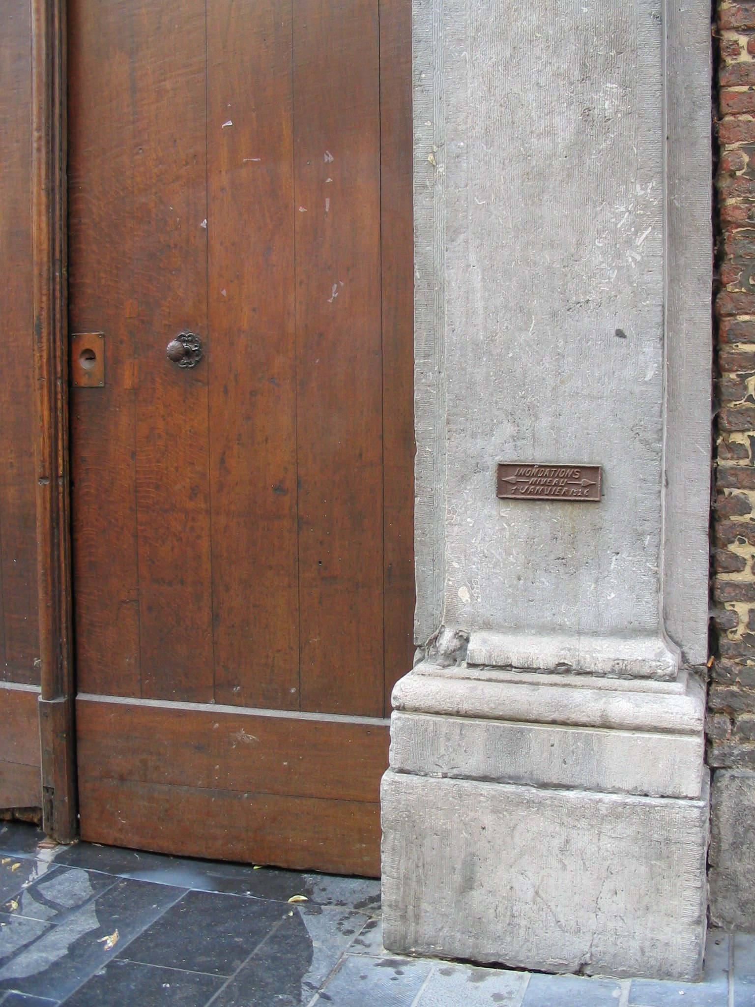 Liege 1926 flooding water level